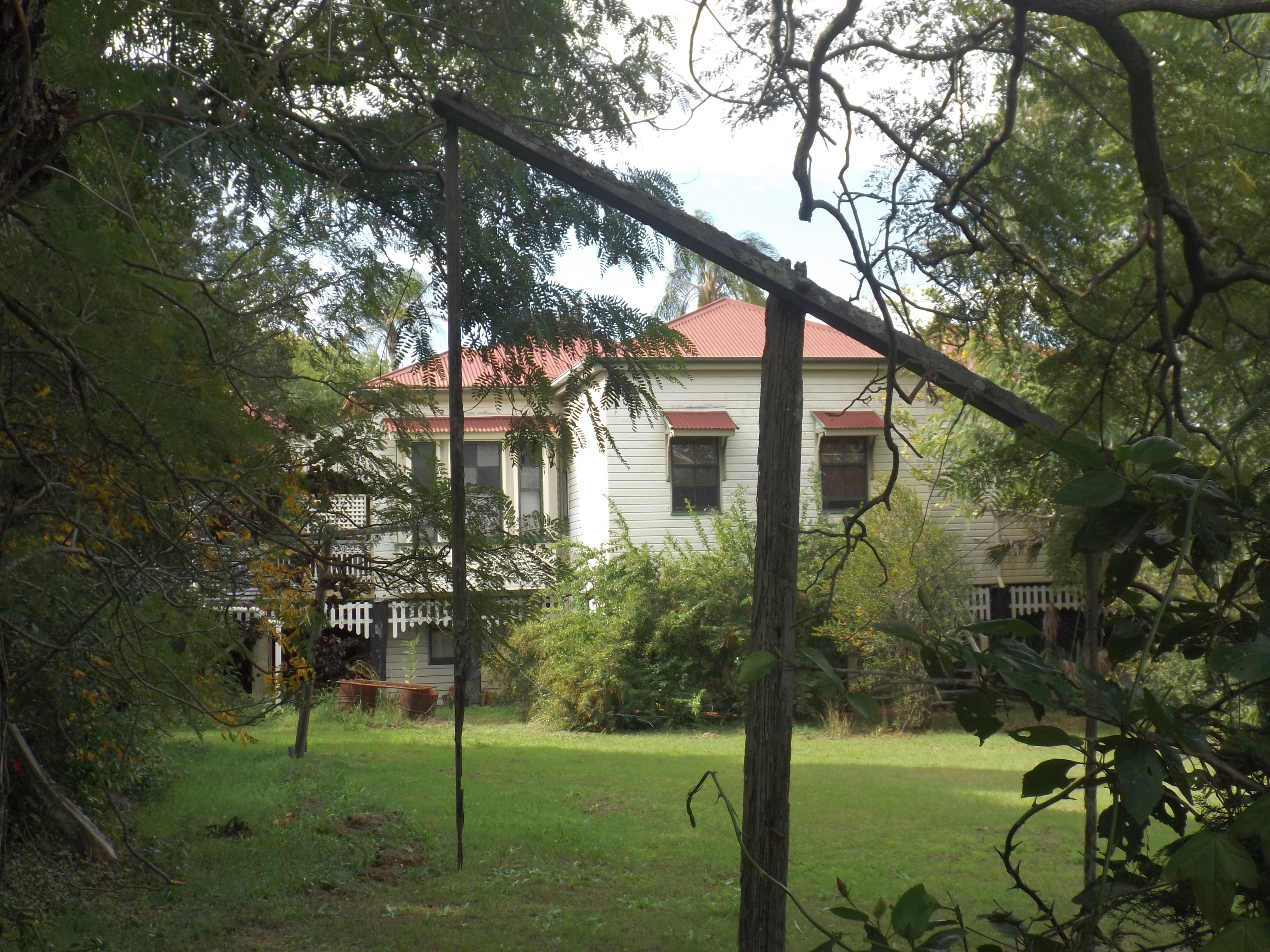 Photo of the rear view Glendalough, Rosewood, Ipswich, Queensland, Australia.